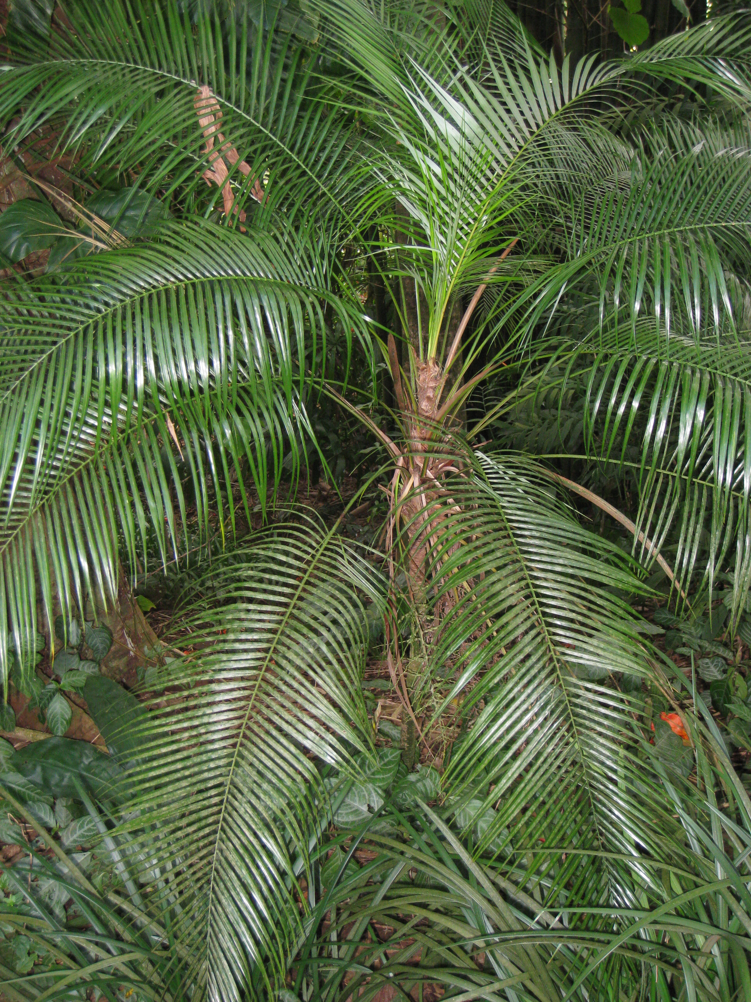 Lytocaryum wedellianum — in Lyon Arboretum, Oahu, Hawaii, USA.